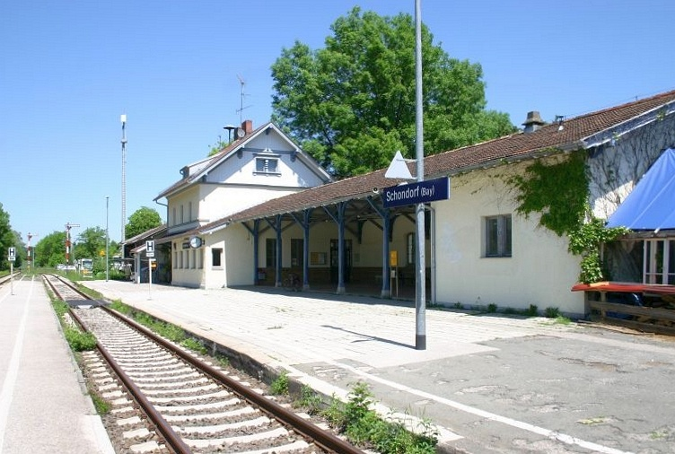 Station Schondorf am Ammersee in Bavaria, Germany